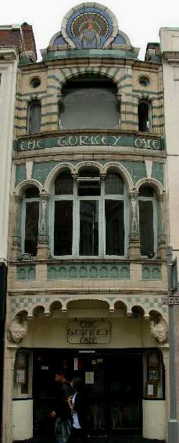 The Turkey Cafe at 24 Granby Street, Leicester